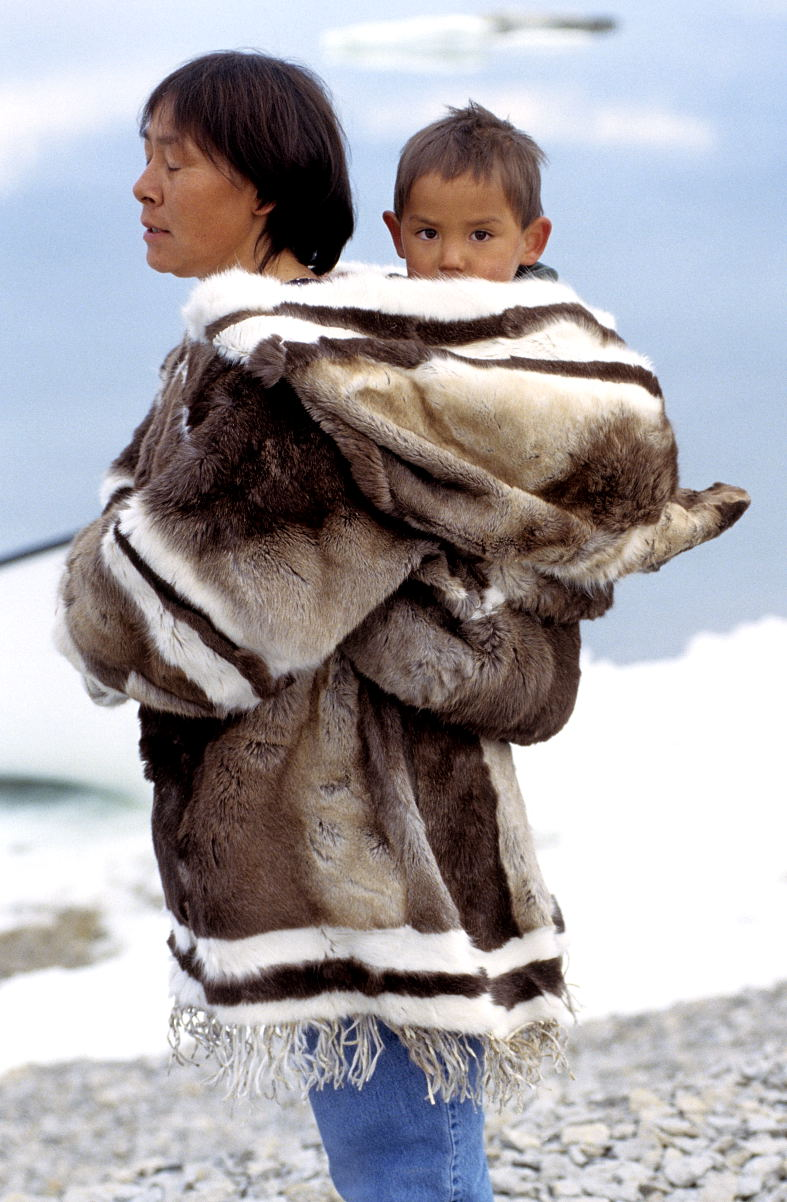 Traditional Inuit clothing in Iglulik: Amautiq of caribou fur